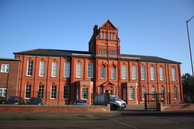 Former General Hospital Vivid red brick, 1879-81 by William Bliss, on London Road